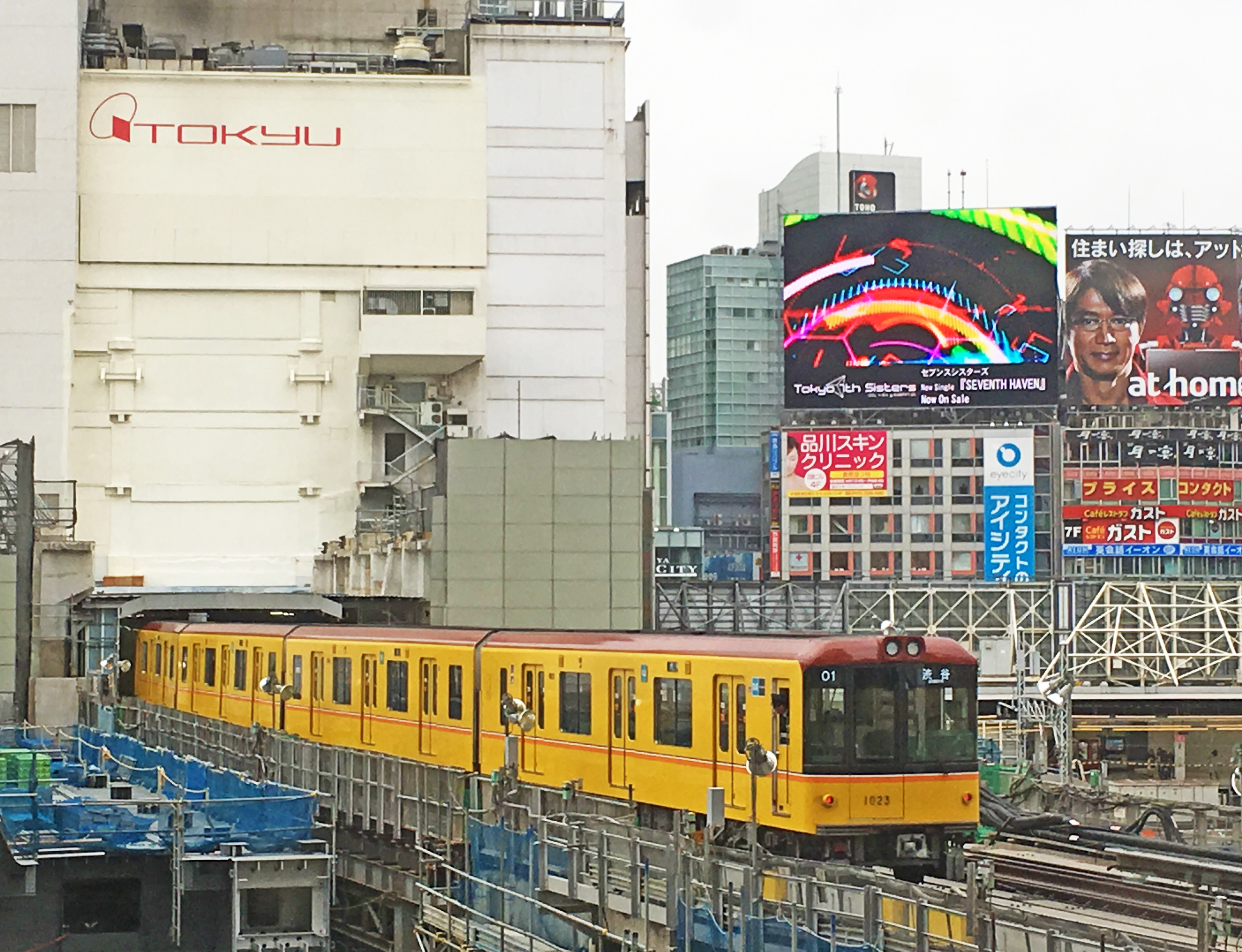 A Tokyo Metro Ginza Line 1000 series train departing from Shibuya Station